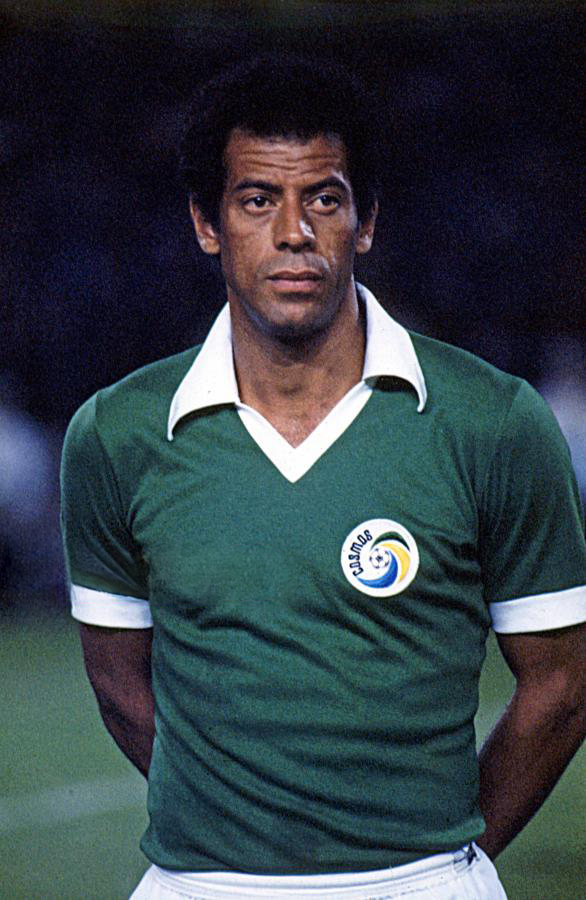 Brazilian player Carlos Alberto Torres while playing for the NY Cosmos.